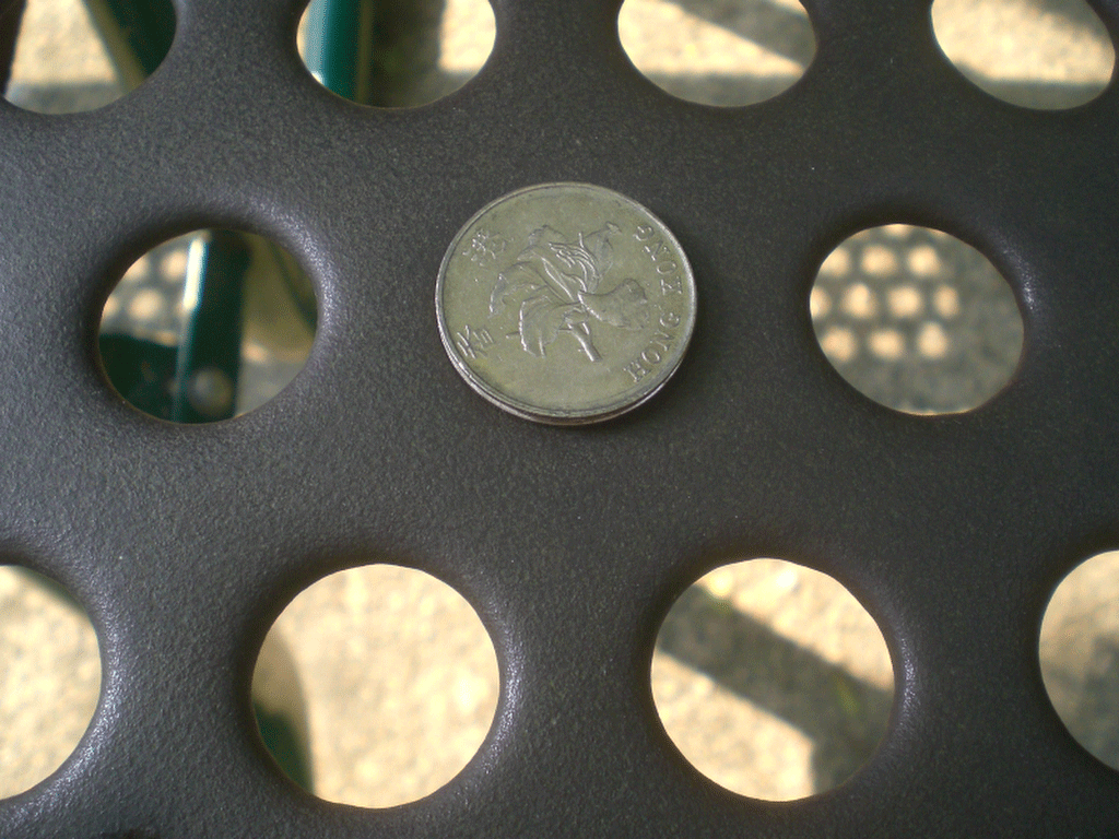 九龍碧雲道藍田公園